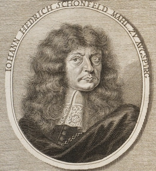 Engraving from the German Academy of the Noble Arts of Architecture, Sculpture and Painting, or Teutsche Academie, a comprehensive dictionary of art by Joachim von Sandrart, published in 1675 and later illustrated with engravings in 1683 Mattheus Merian the younger, David Klocker, Johann Hendrik Schonfeld, Wenzel Jamnitzer, Anna Maria Schurman